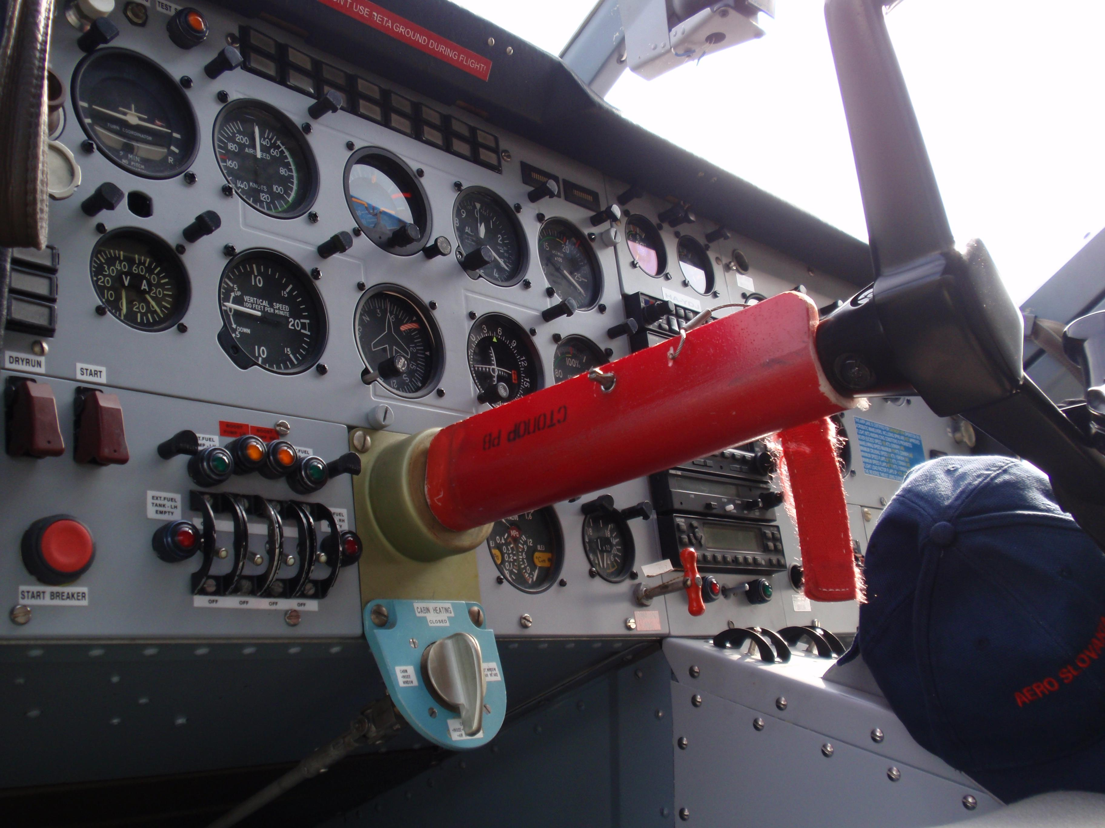 SMG-92T Turbo Finist cockpit